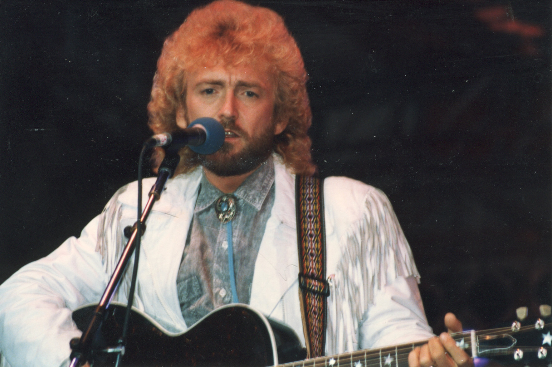 Photograph of Keith Whitley taken at Country Music Fan Fair in June 1988 in Nashville, Tennessee at the Tennessee State Fairgrounds by Christina Lynn Johnson, MagnetLoft - while working for CKDQ Q91 Radio Drumheller, Alberta on-air name "Tina Stephenson" he married another country singer. Keith Whitley at 21st Annual Country Music Fan Fair in Nashville Tennessee 1988 photographed by myself, Christina Lynn Johnson, MagnetLoft - while working for CKDQ 91 Radio in Drumheller, Alberta as on-air personality "Tina Johnson"